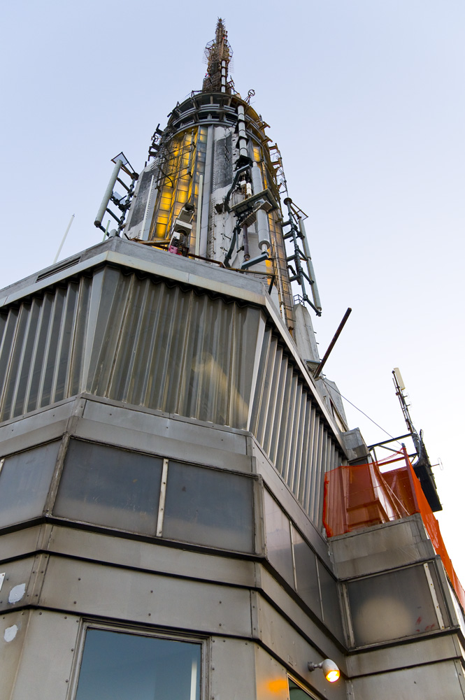 Top of the Empire State BuildingThe title of the image at the source is: Empire State Building Top, New York.